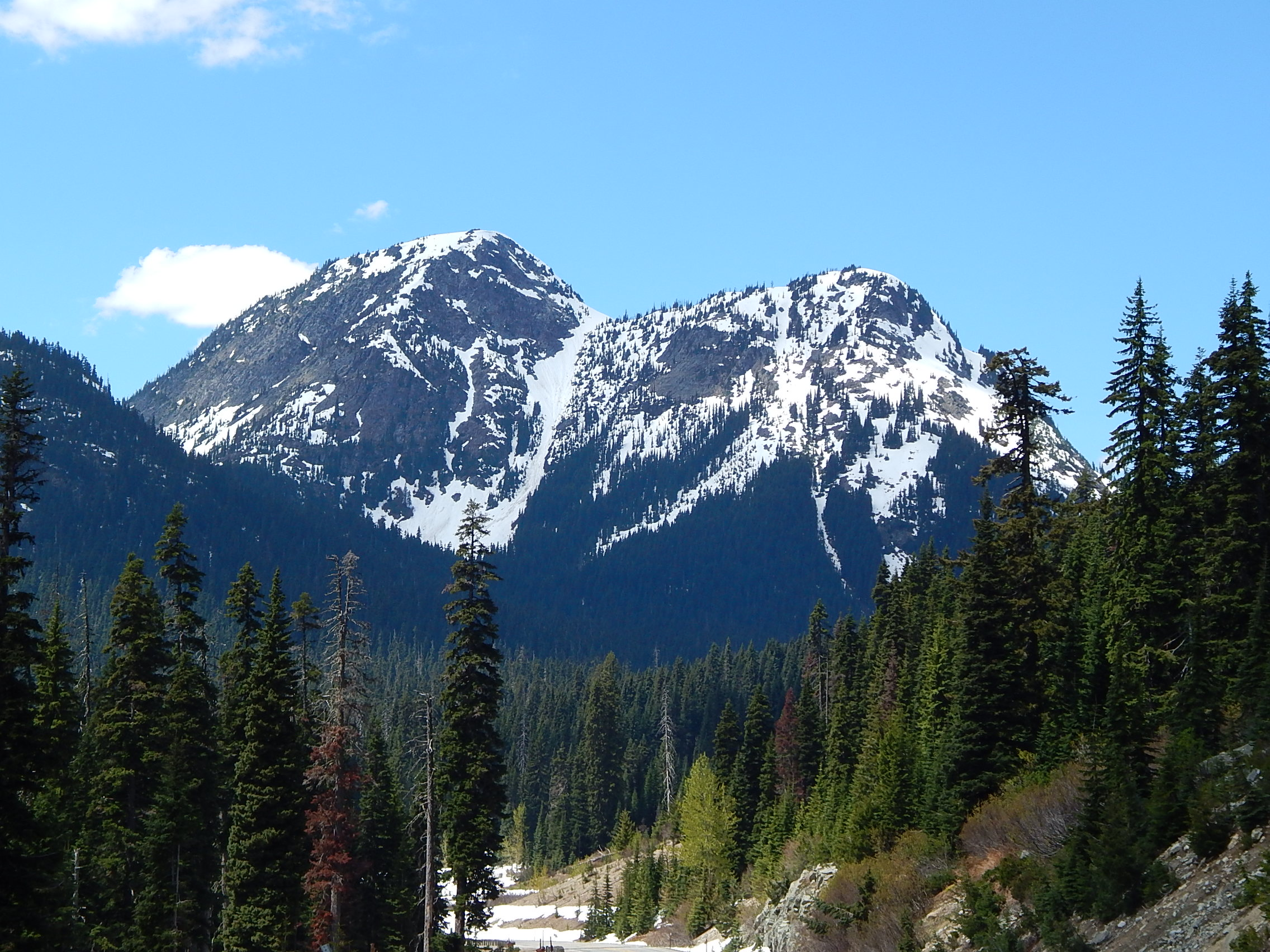 Crooked Bum 6987' in the North Cascades seen from Highway 20